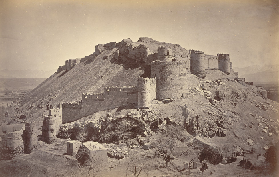 Upper Bala Hissar from west [Kabul]. Photograph taken by John Burke in 1879, in the period of the Second Afghan War (1878-80), showing the upper ramparts of the Bala Hissar fortress at Kabul in Afghanistan, with a cemetery in the foreground. The views in this album concentrate on the topography of Kabul and military scenes during the British occupation of 1879-80. In 1878 John Burke accompanied the Peshawar Valley Field Force, one of three British Anglo-Indian army columns deployed in the war, despite being rejected for the role of official photographer. He financed his trip by advance sales of his photographs 'illustrating the advance from Attock to Jellalabad'. Burke's Afghanistan photographs produced an important visual document of the region where strategies of the Great Game (concerning the territorial rivalry between Britain and Russia) were played out. The Bala Hissar or High Fortress was the ancient seat of power at Kabul dating back to the 5th century AD. It was located south of the city overlooking the houses and bazaars from a commanding height. In 1879, when General Roberts and his troops occupied the city in the second campaign of the war, precipitated by the killing of the British Resident Sir Louis Cavagnari and his mission and the sacking of the Residency by the Afghans, the British first stayed in the fortress and later partially destroyed it in punitive action against the Afghans.